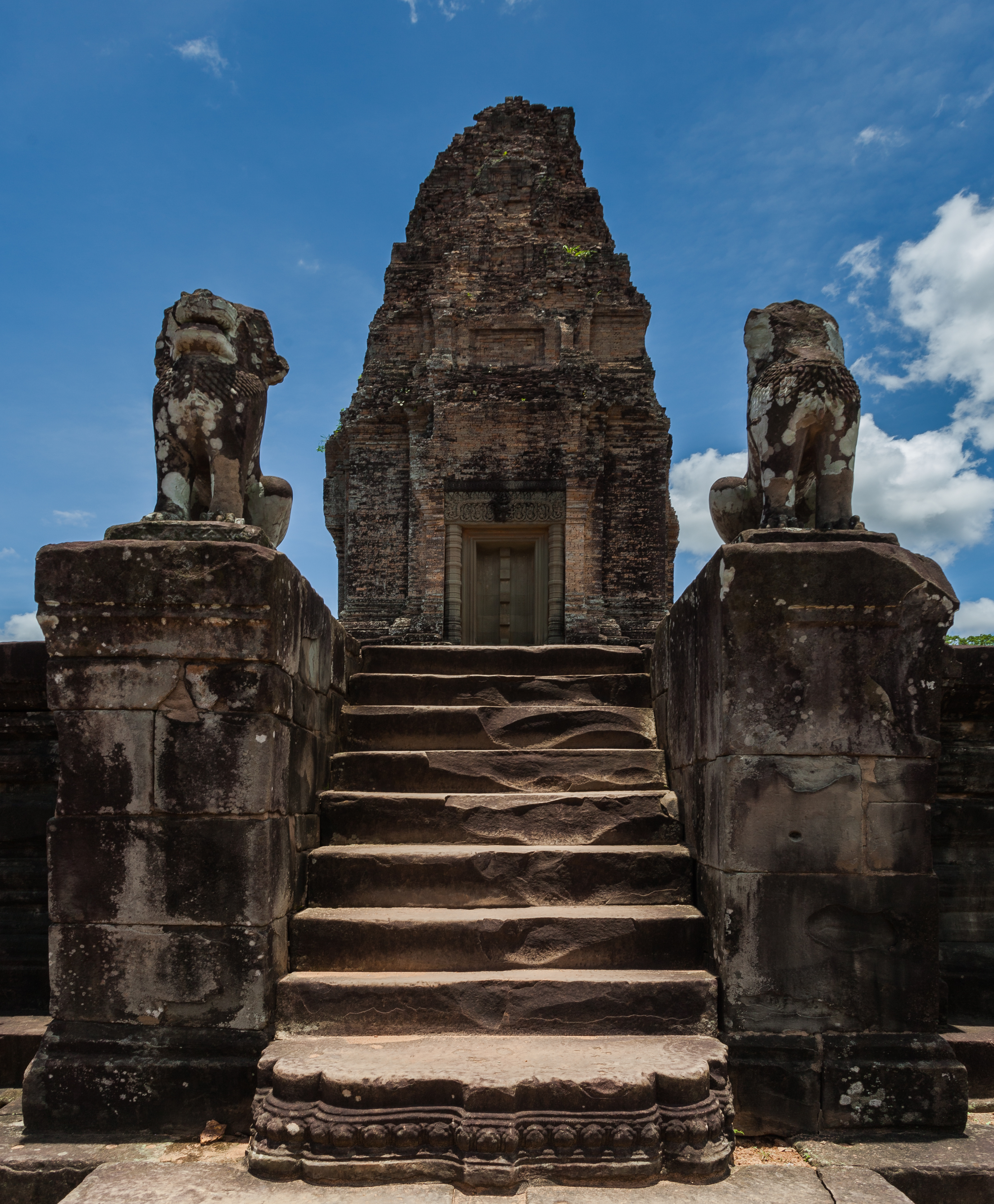 Mebon Oriental, Angkor, Cambodia